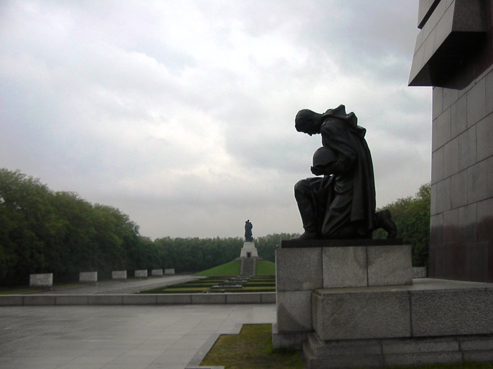 Soviet War Memorial Park, May 2006